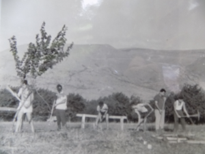 A youth work action for constructing the Stadion pod Bijelim Brijegom between 1947-1958.